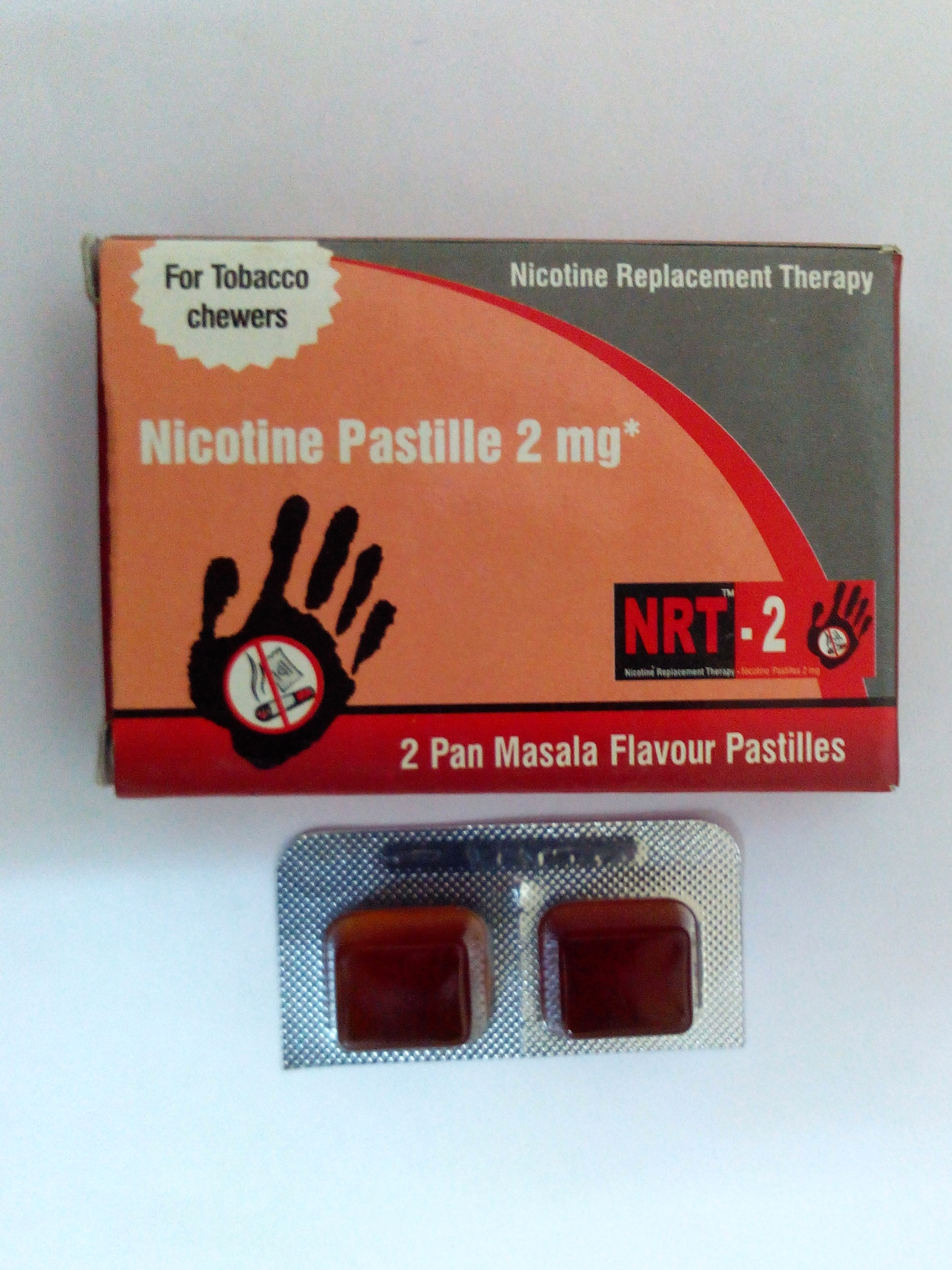 Nicotine pastille used in tobacco cessation (Nicotine replacement therapy)